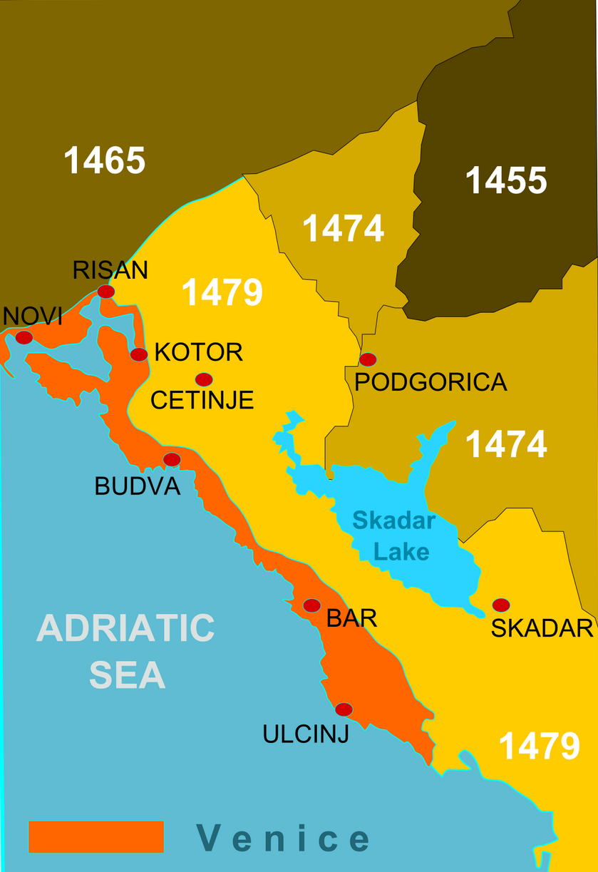 Turkish incursions into Montenegro and Venice properties (cXV BC).(Source: Editorial Board for the History of Montenegro - History of Montenegro, Book II-2, Titograd, 1970.)